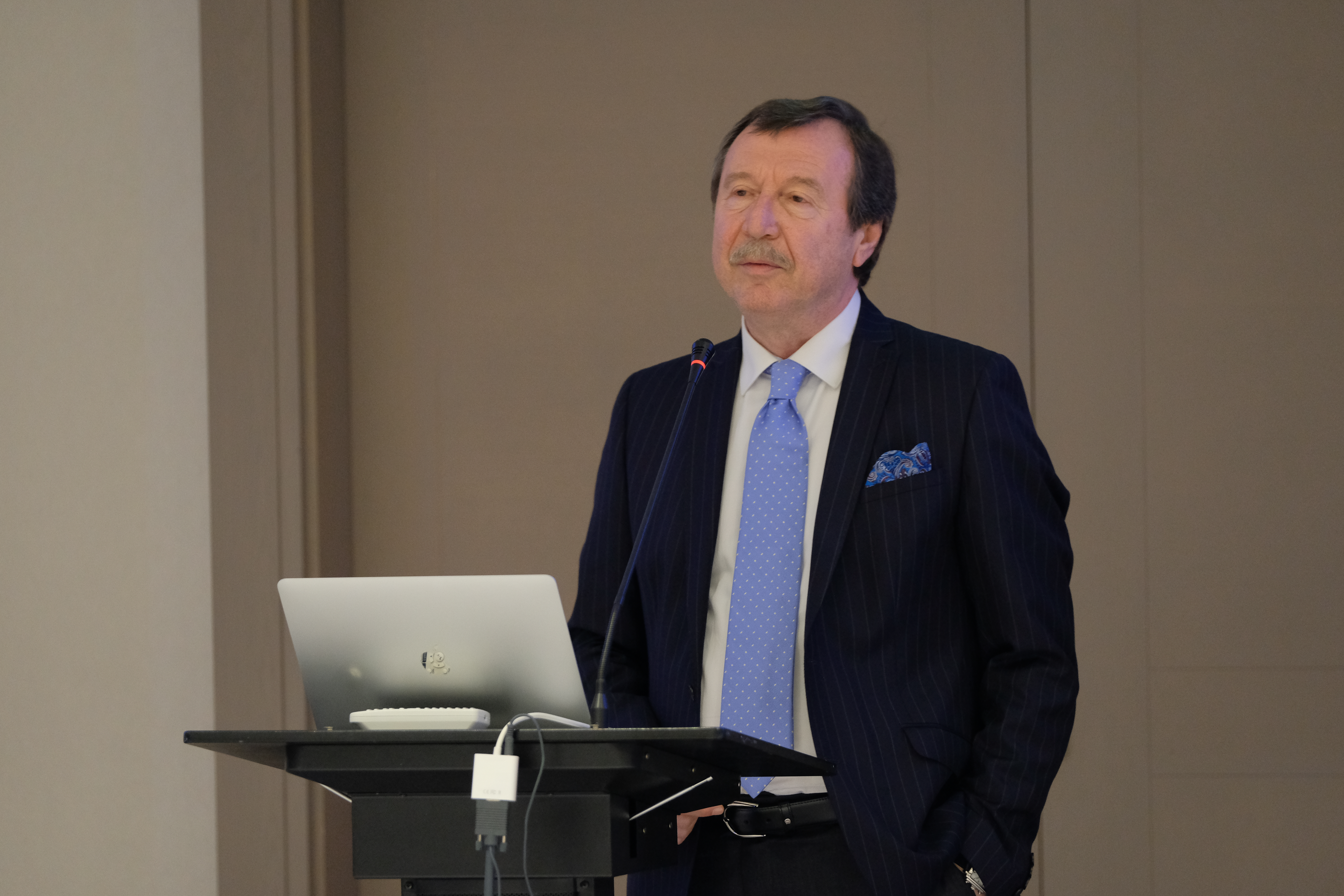 Boris Volodarsky.This picture was taken during a lecture in Limassol, Cyprus on March 30, 2019